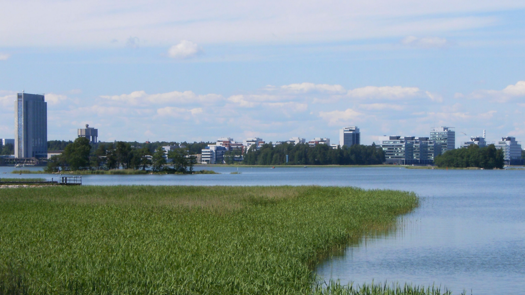 The south-eastern part of Espoo, Finland